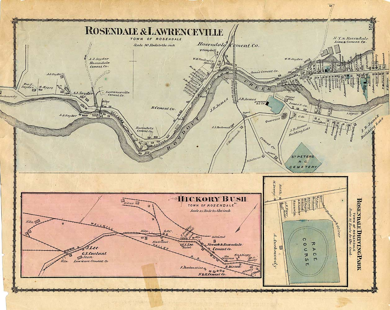 Scanned page of an atlas of Ulster County, New York prepared by F. W. Beers and first published in 1875.